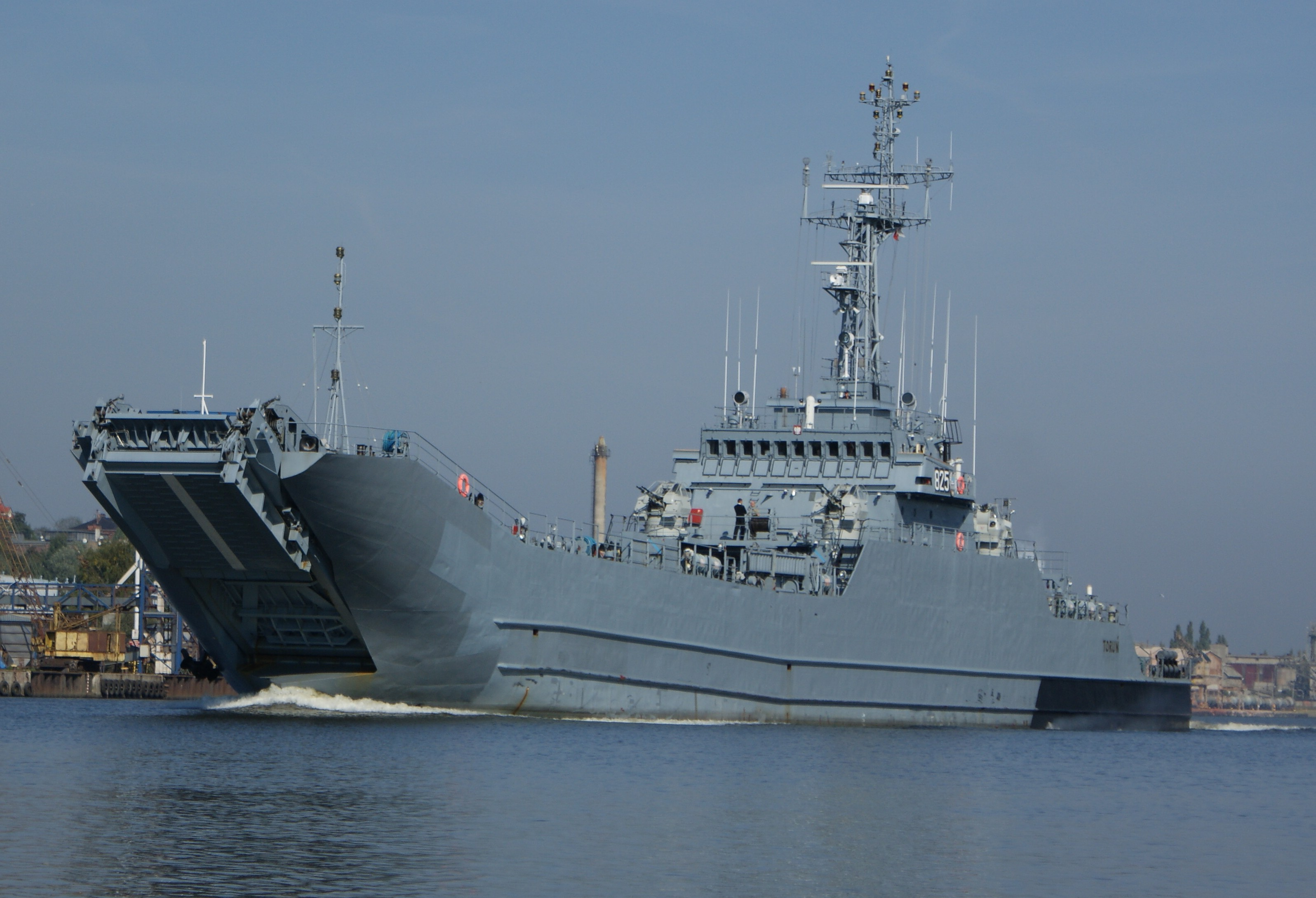 ORP Toruń - Polish ship in Szczecin Port